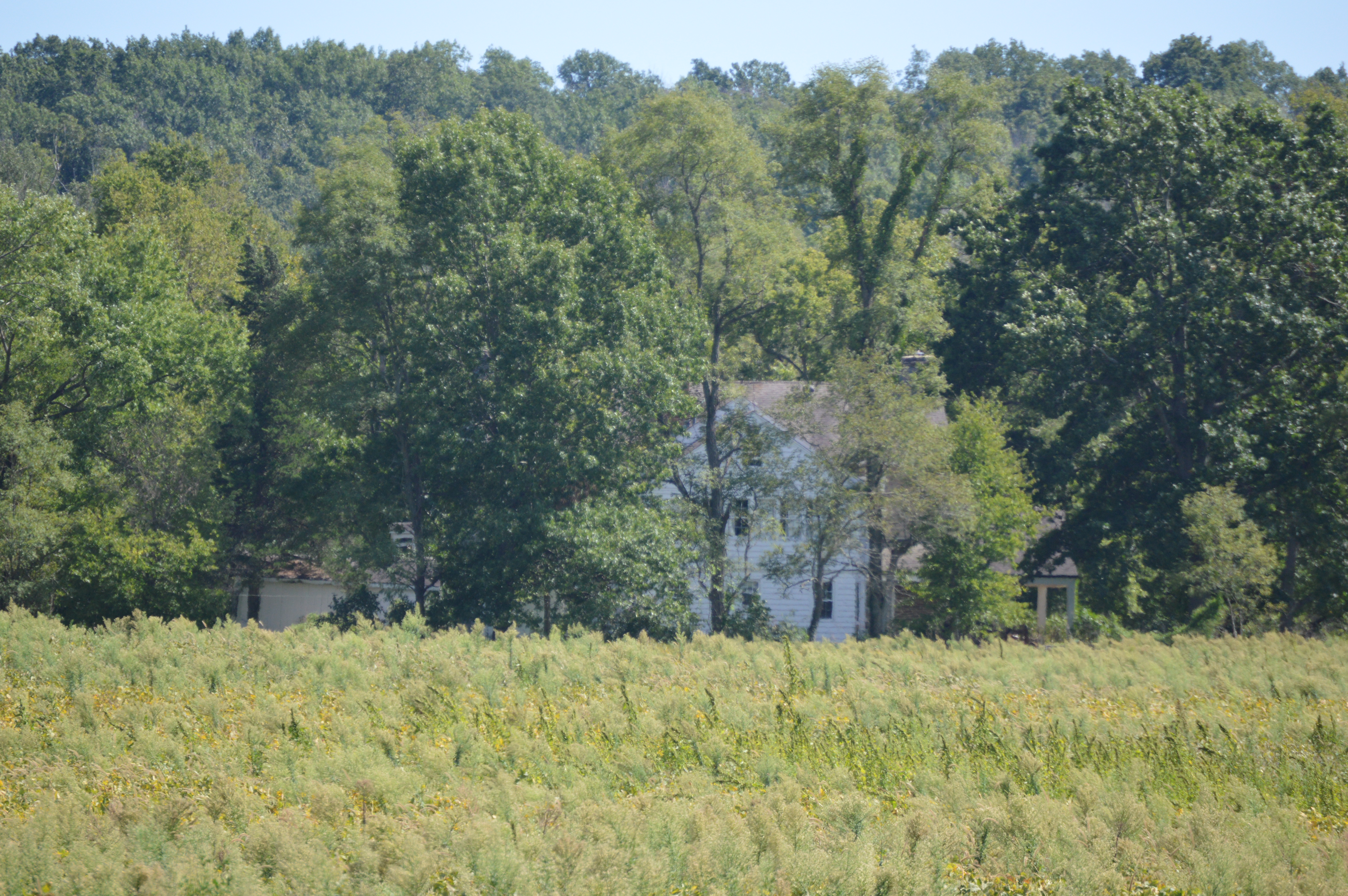 Distant view from the west of the Matthew Hueston House, located at 1320 Four Mile Creek Road northwest of Hamilton in Hanover Township, Butler County, Ohio, United States. Built in 1813, it is listed on the National Register of Historic Places.